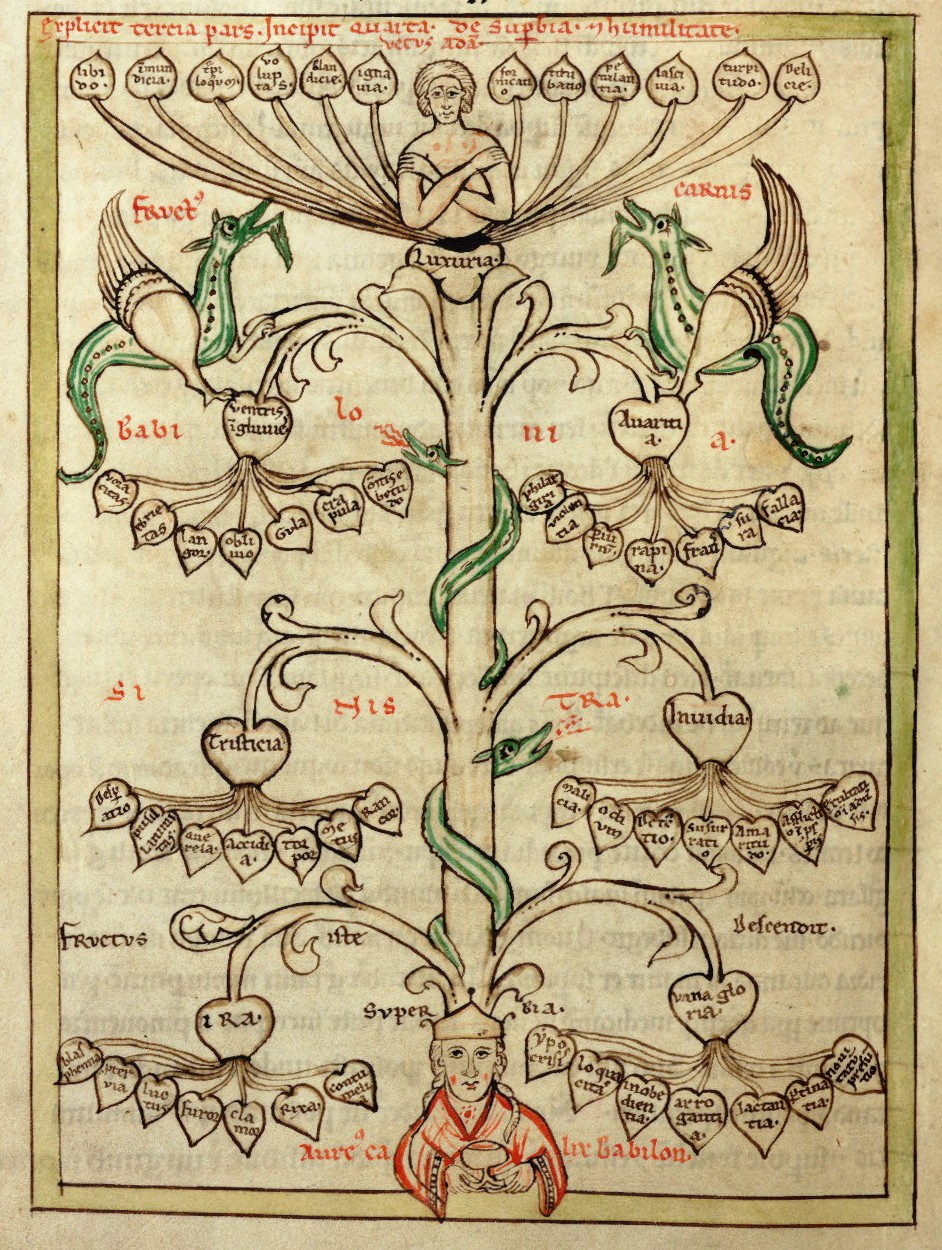 "Tree of Vices" from Speculum Virginum, Walters Art Museum Ms. W.72, fol. 25v Early 13th century manuscript from the Cistercian abbey of Himmerode, Germany. Tree of the cardinal vices each with their sub-vices; see also File:Speculum3.jpg, Speculum humanae salvationis, ca. 1330. The cardinal vices are: luxuria, ventris ingluvies, avaritia, tristicia, invidia, ira, vana gloria; "lust", "gluttony" (gula as sub-vice), "avarice", "dejection" (acedia as sub-vice), "envy", "wrath", "vanity". luxuria gets twelve sub-vices, the other six get seven each. the root of the tree is superbia, holding the aureus calix babilon. The inscriptions fructus carnis : babilonia : sinistra : fructus iste descendit contrast with fructus spiritus : iherusalem : dextera : iste ascendit in the juxtaposed Tree of Virtues (f. 26r) The figure with crossed arms is labelled vetus adam, contrasting with novus adam. literature: Pablo Garcia Acosta, Mirouer, diss. Pompeu Fabra, Barcelona, 2009, p. 183; A. Watson, "The Speculum Virginum with Special Reference to the Tree of Jesse", Speculum 3.4, October 1928, 445-469. luxuria libido imundicia turpiloquium voluptas blandicie ignavia fornicatio titubatio petulantia lascivia turpitudo delicie ventris ingluvies voracitas ebrietas languor gula crapula mentis ebetudo avaritia philargiria violentia periurium rapina fraus usura fallacia tristicia desperatio pusillanimitas querela accidia torpor metus rancor invidia malicia odium detractio susuratio amaritudo afflictio in prosperis exultatio in adversis ira blasphemia protervia luctus furor clamor rixa contumelia vana gloria ypocrisis loquacitas inobedientia arrogantia lactantia pertinatia novitatum persumptio